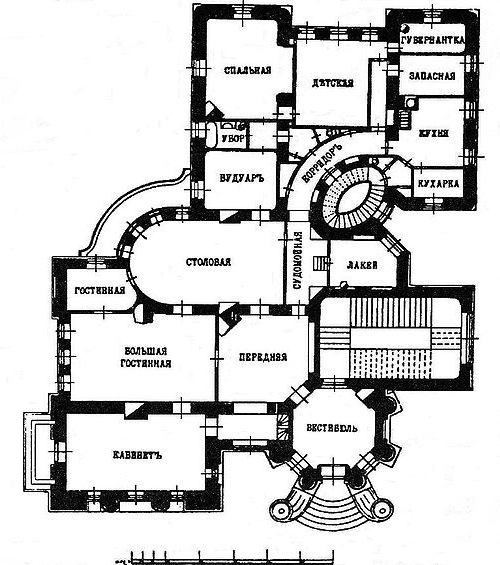 The original plan of the first floor of the House with Chimaeras in Kiev, Ukraine (1912).